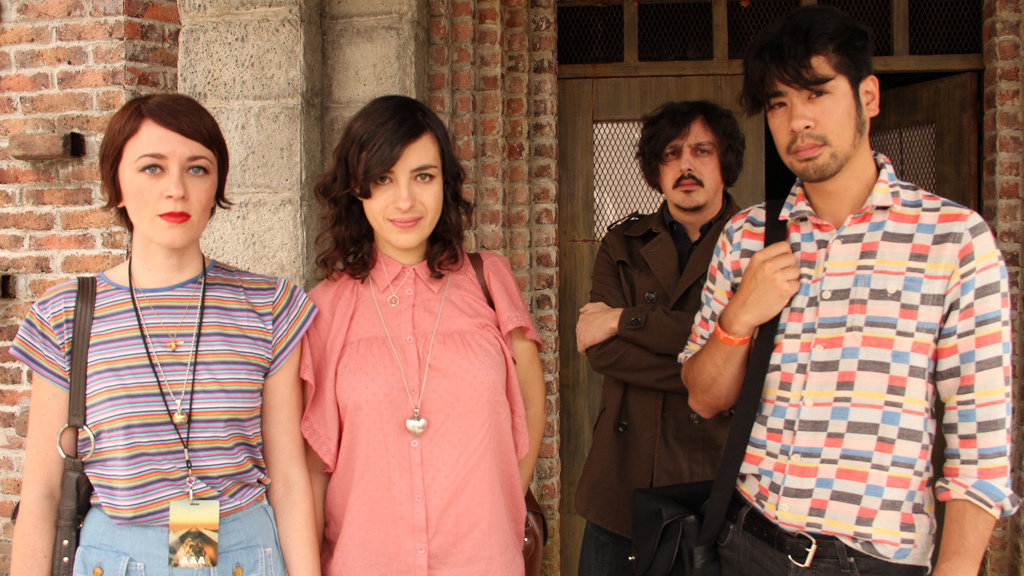 Ladytron in Mexico in 2011. From left to right: Helen Marnie, Mira Aroyo, Daniel Hunt, Reuben Wu.